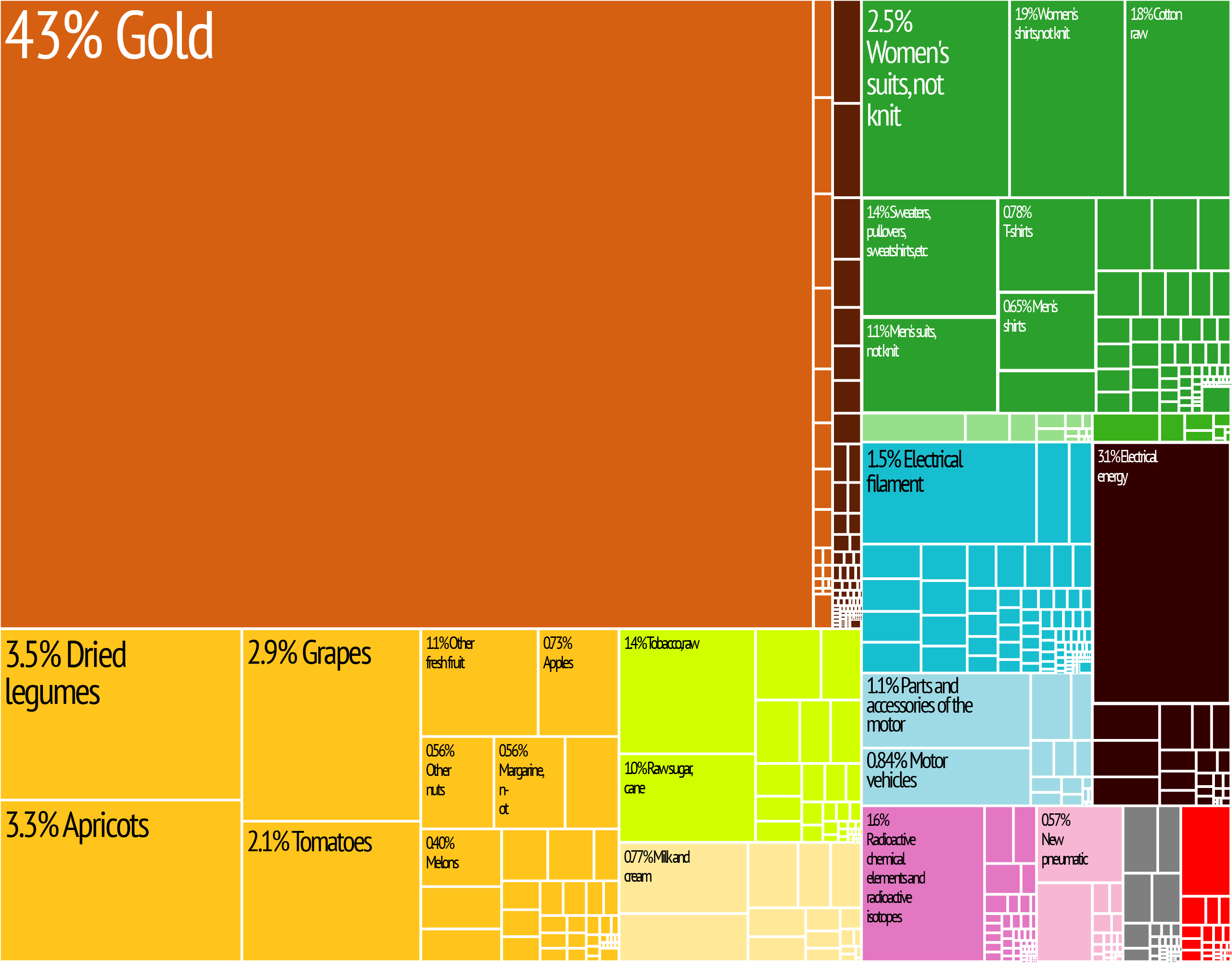 Kyrgyzstan Export Treemap from MIT Harvard Economic Complexity Observatory